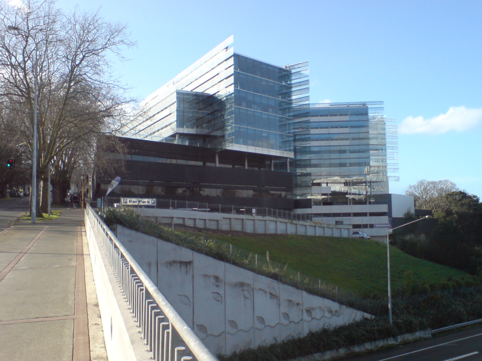 Owen G. Glenn Building of the University of Auckland's Business School, Auckland City, New Zealand.